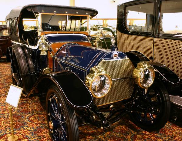 1912 ALCO Six Judkins Touring photographed by DougW of at the Nethercutt Collection in Santa Clarita, CA. This car is currently licensed, battery charged, full of gasoline and ready to drive.